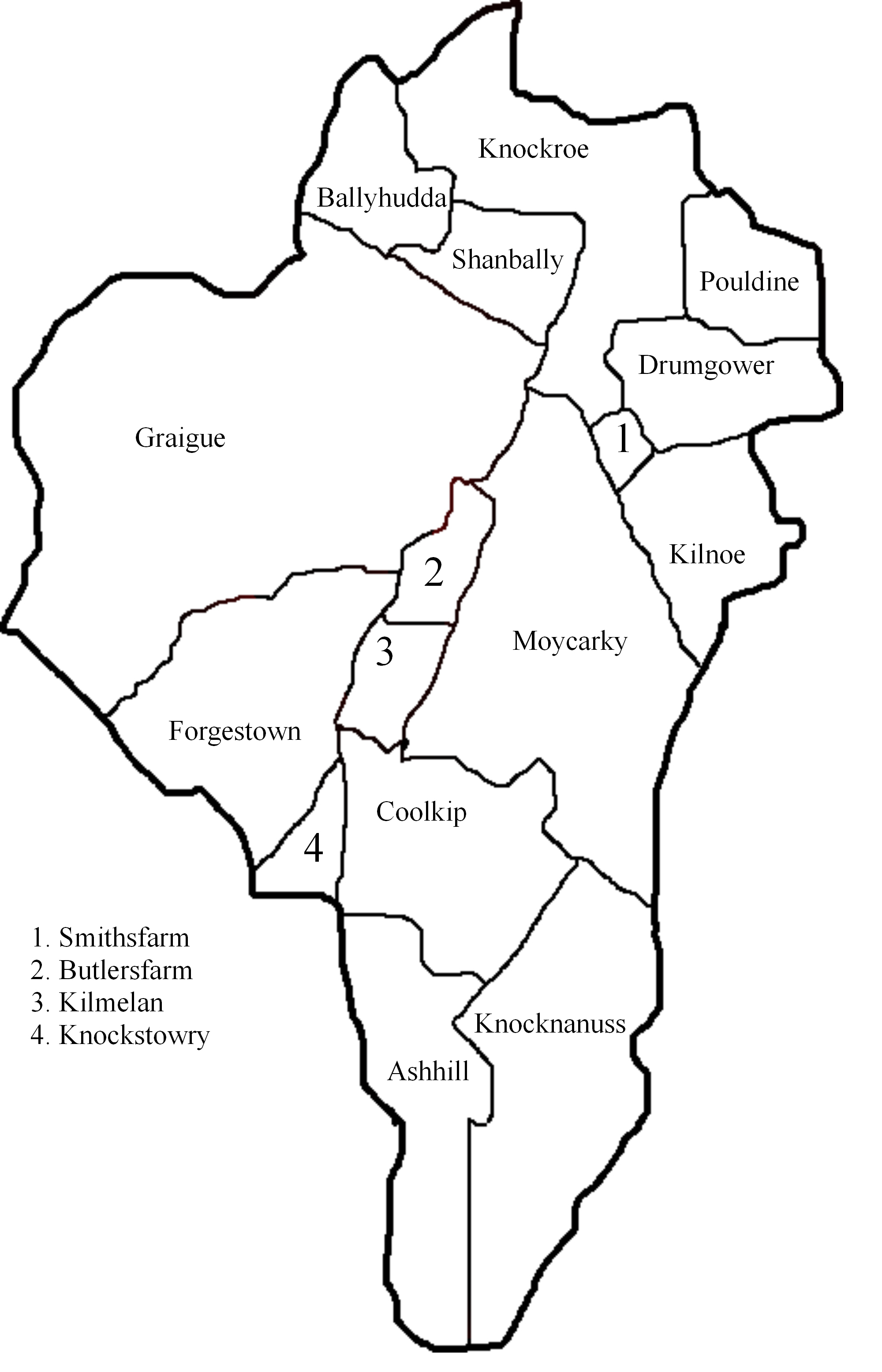 Map showing townlands in Moycarky civil parish in County Tipperary. A map showing just the boundaries is available here.